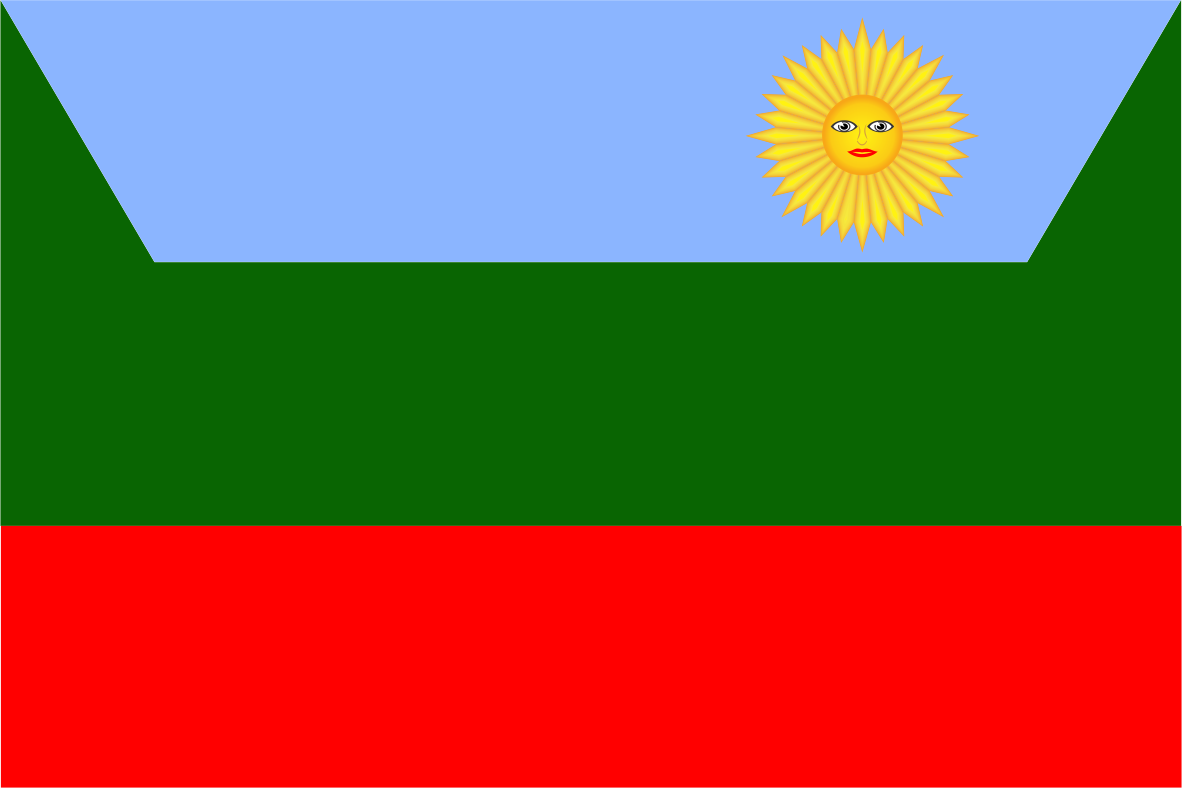 District of Chachapoyas - Chachapoyas Province - Amazon Region